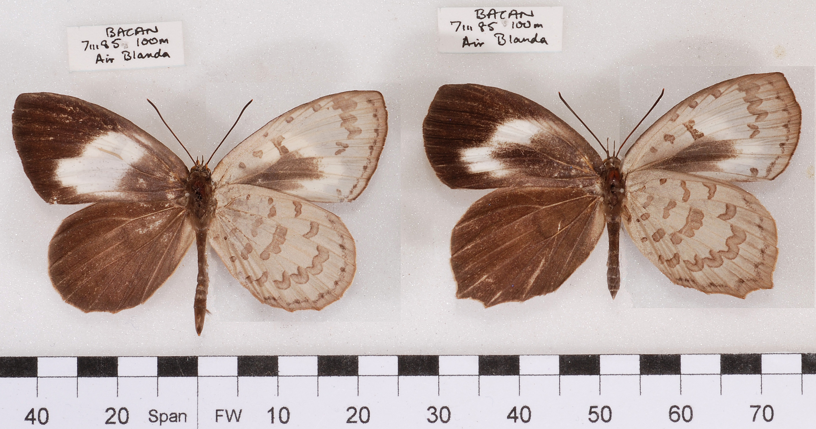 Miletus leos virtus, male, female, set specimens, Maluku, Bacan, Project Wallace material, Alan Cassidy photo.